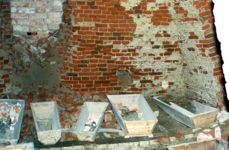 Interior of the pyramid in Rapa.